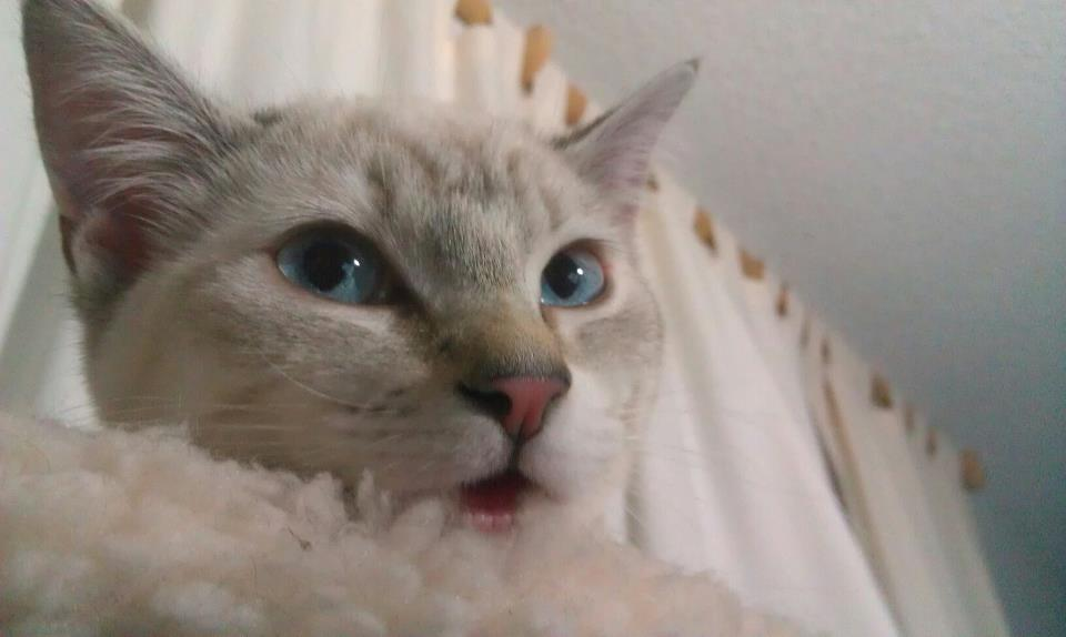 Kitten approx 5 months old teething on cloth bed CC-BY-SA